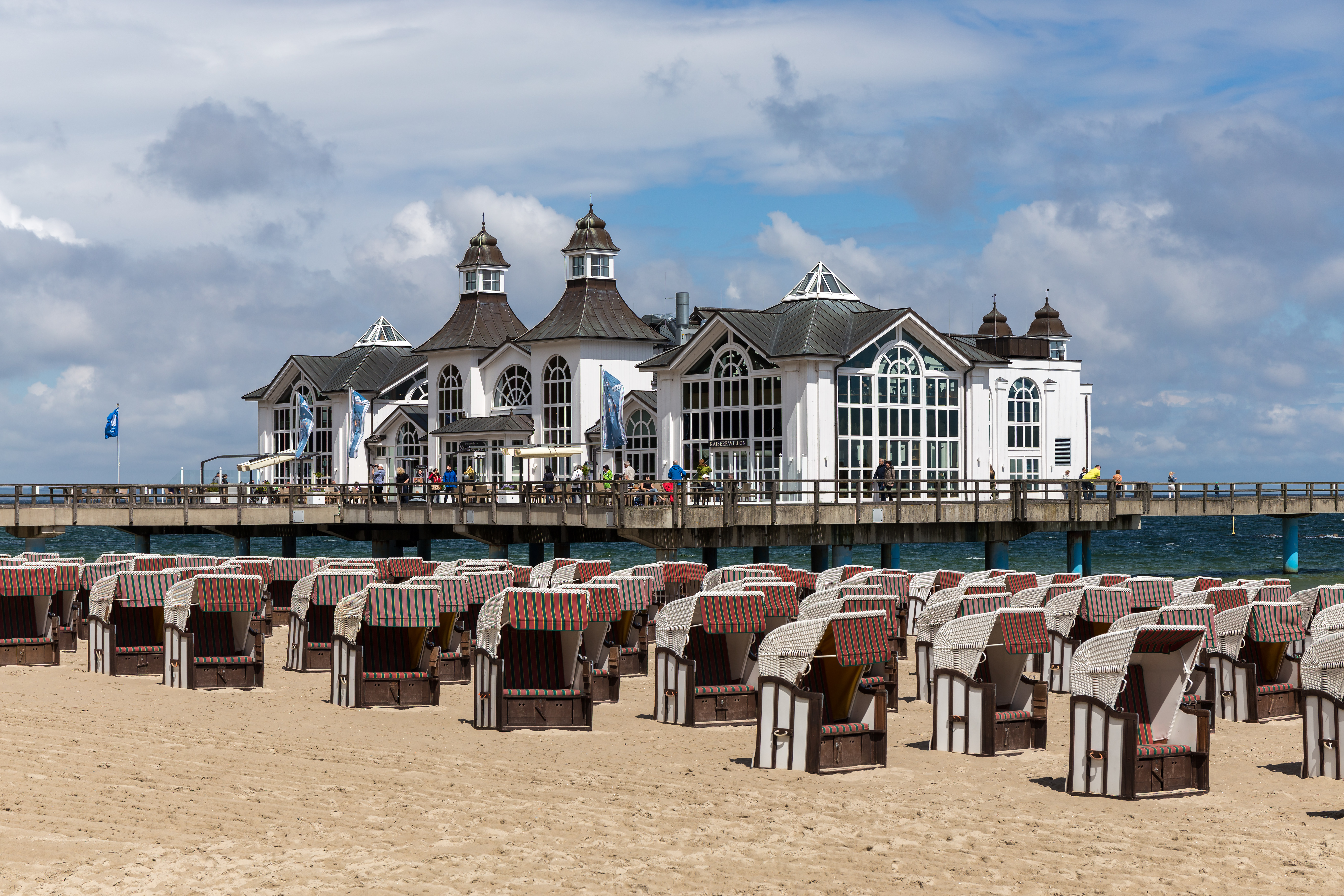 Sellin pier, Rügen.